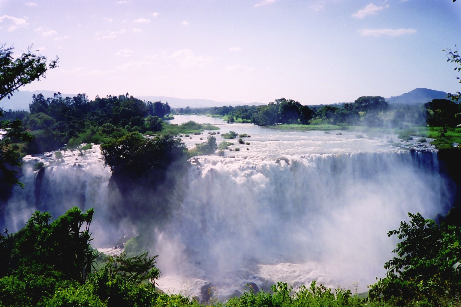 Blue Nile Falls (Tiss Isat Falls), Ethiopia